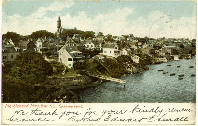 Postcard: View of Marblehead from Rockmere Point, 1905 Description: Store Web page states: "Undivided back postcard (1901 to 1907) used, postmarked Marblehead, Mass. 1905" Source: eBay store Web page